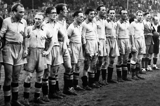 Swedish national team that won olympic gold in London 1948